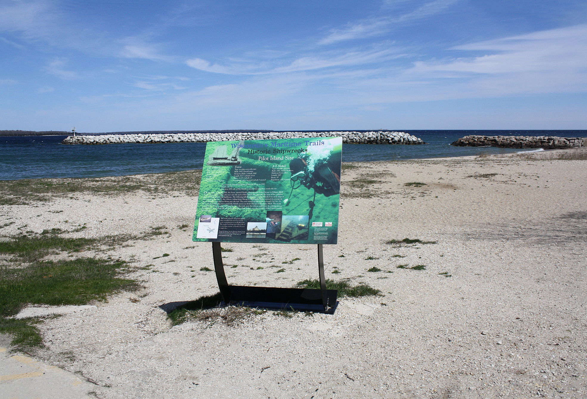 A sign for the Pilot Island NW Site, a series of shipwrecks listed on the National Register of Historic Places. Pilot Island is barely visible in the far distance behind the breakwall.